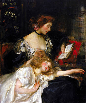 Mother and Child (Lady Shannon and Kitty)